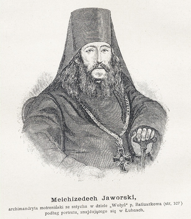 Melchizedek (Znaczko-Jaworski), Orthodox Monk in Polish–Lithuanian Commonwealth in XVIIIth century